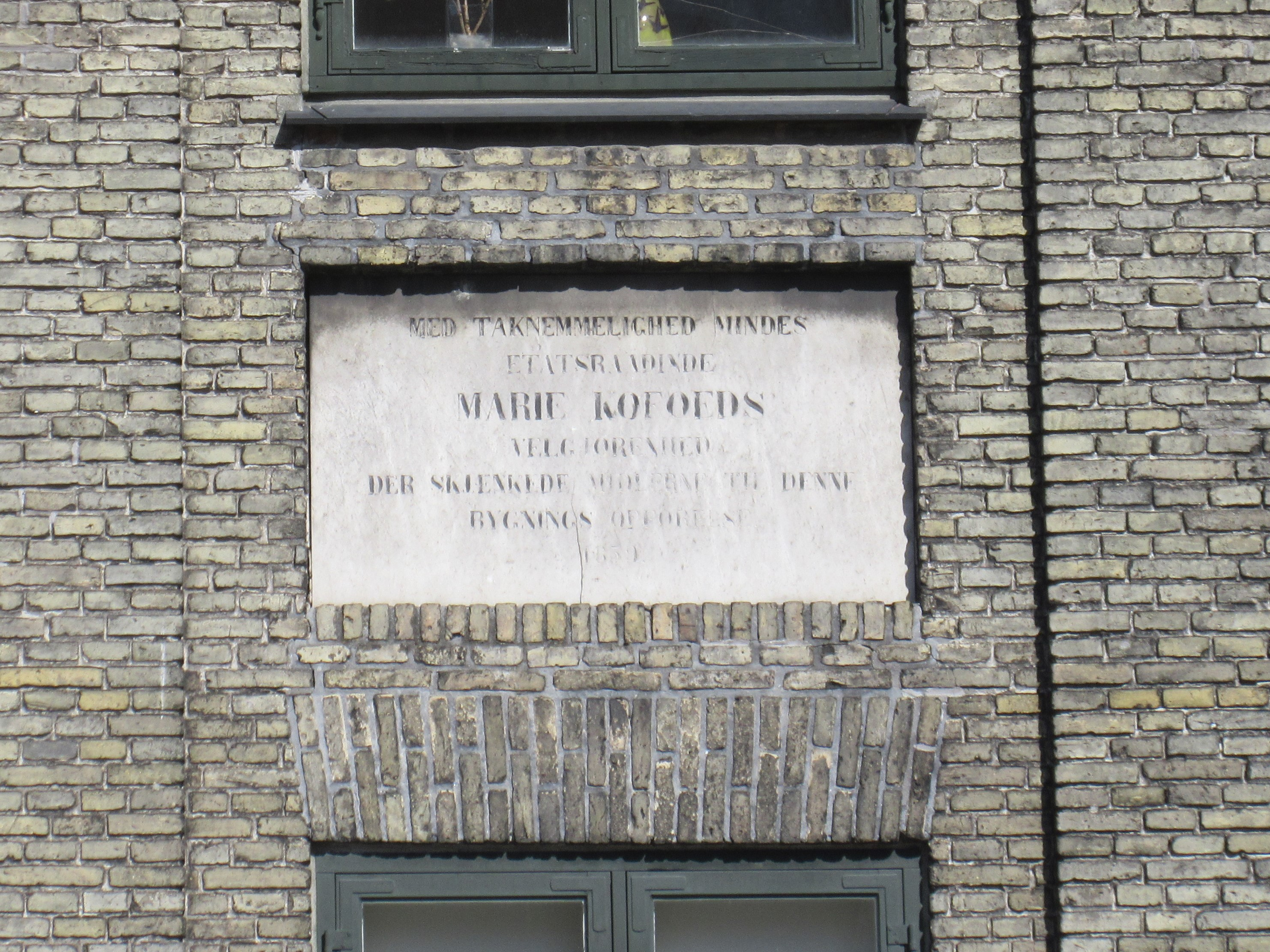 Commemorative plaque at the corner of Sofiegade in Copenhagen, Denmark Marie Kofoed.